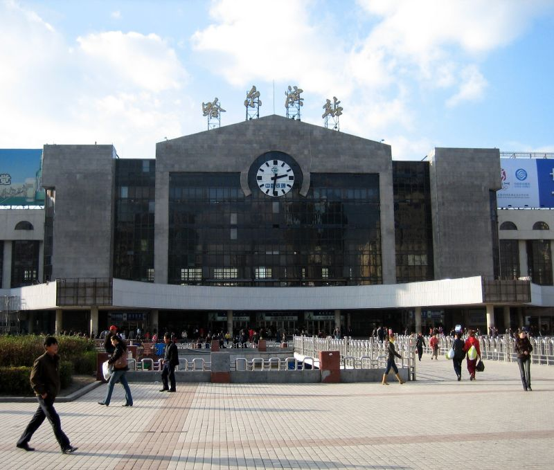 Front entrance to Harbin Train Station.